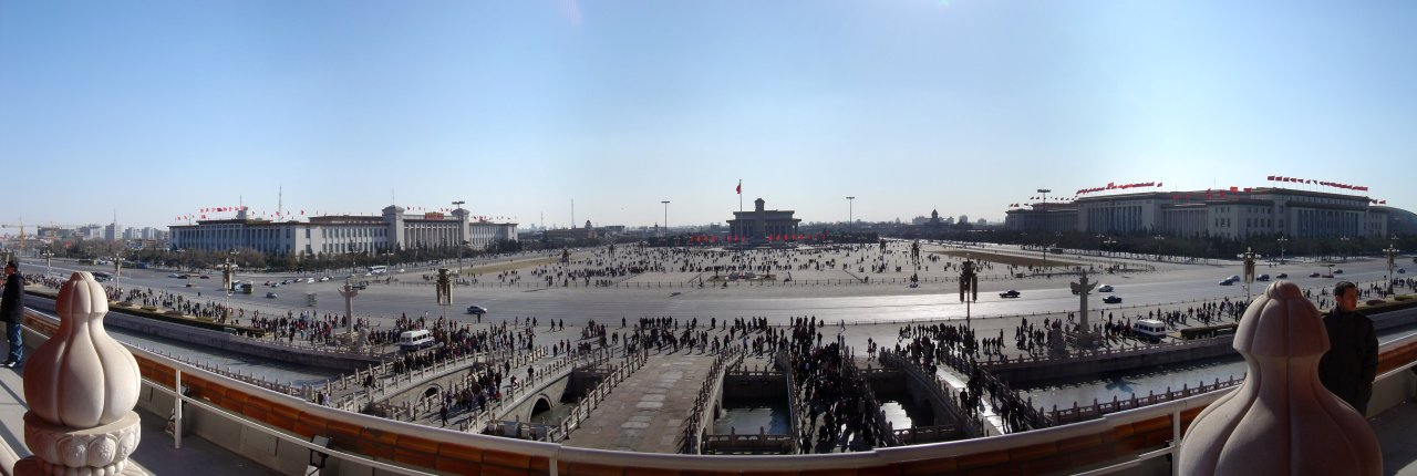 Beijing Tiananmen Square 180 degree overview picture Viewpoint is from Tiananmen Gate, looking south. Plain-clothed and armed PLA Paramilitary can be seen standing guard at both ends of the photo. The building to the left is the Museum of Chinese History. The towered building beyond the far left corner of the square is the Victorian era railway station, now used for shops. Directly ahead is the Monument to the People's Heroes and beyond that is the Mausoleum of Mao Zedong. To the right is the Great Hall of the People. The waterway in the foreground is the Imperial Palace moat.